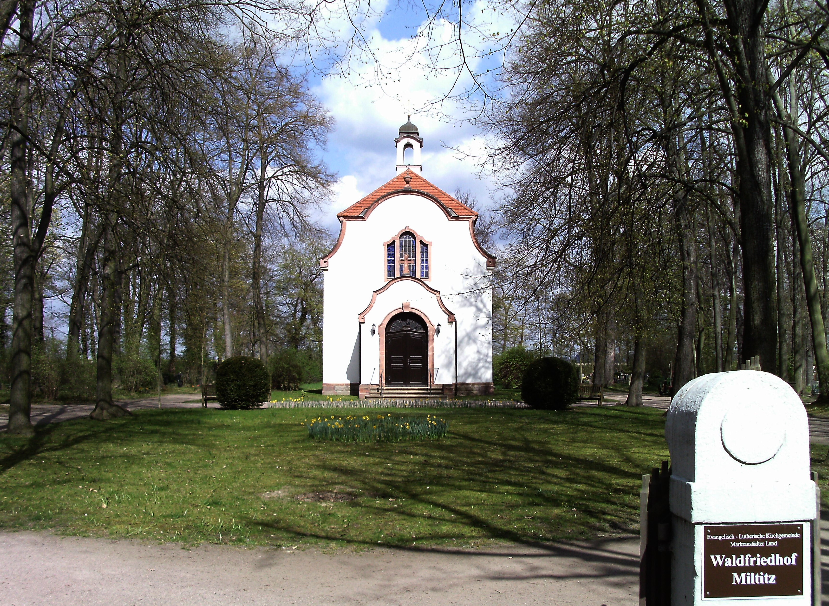 Cemetery chapel in Miltitz (Leipzig, Saxony)